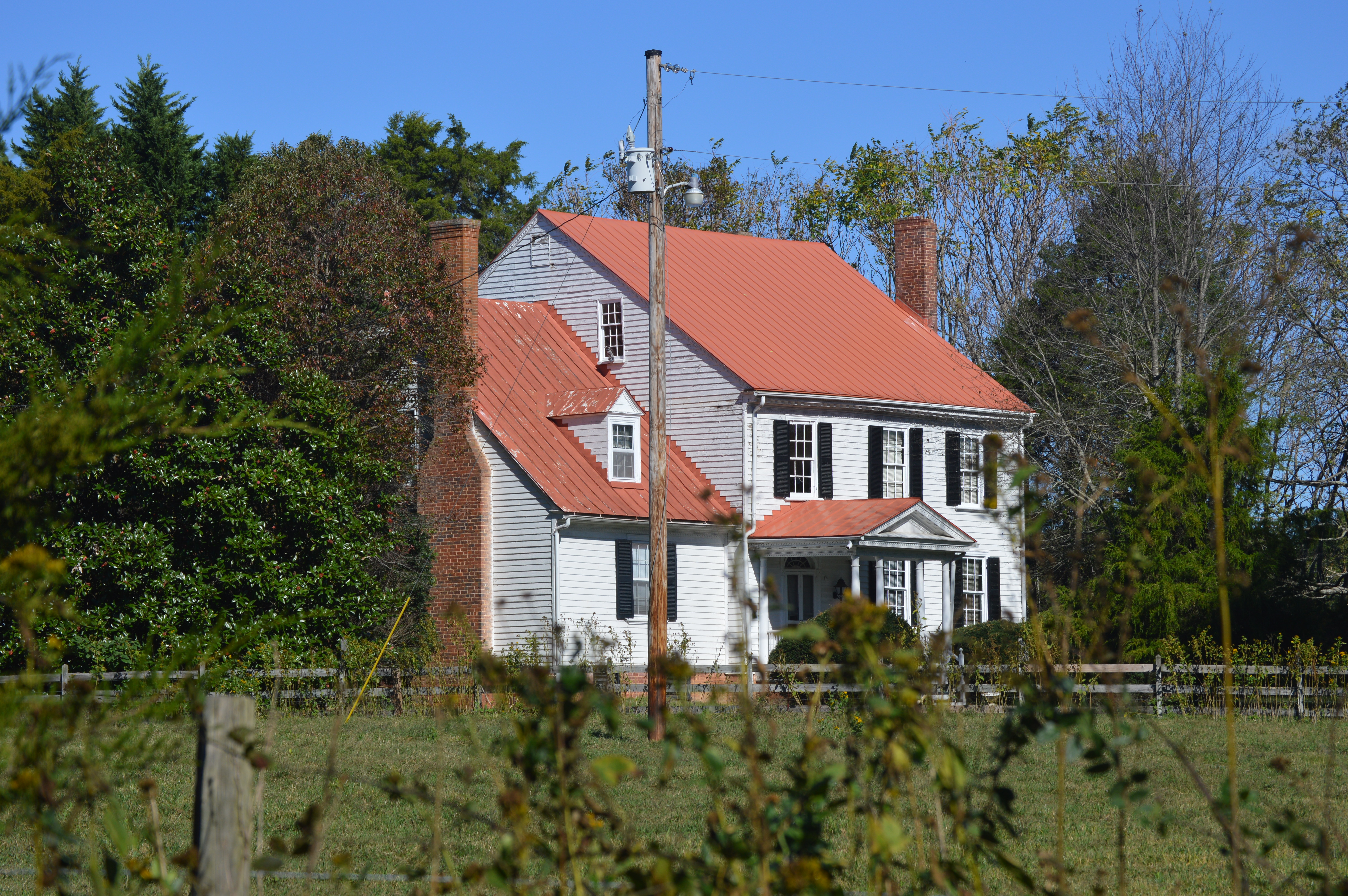 Front and western side of the Waverly Plantation House, located on Cunningham Road on the northern fringe of Person County, North Carolina, United States, within sight of Virginia. Built in 1830, it is listed on the National Register of Historic Places.